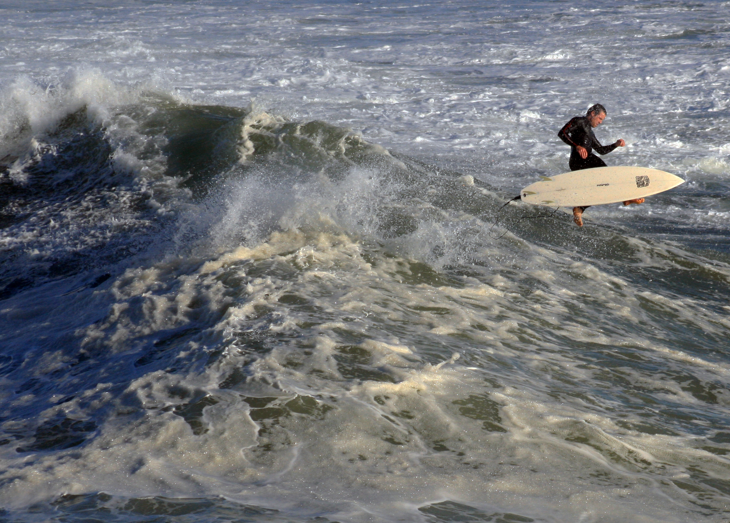 A surfer in Santa Cruz, California. A surfer is in freefall which means he's falling through the air from high up on a wave during a wipeout. (Wipeout is an unintentional fall while surfing, often a dramatic one).